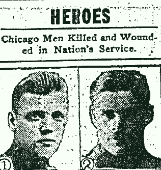 Photograph of Alex Burr from newspaper article about his death in October 1918